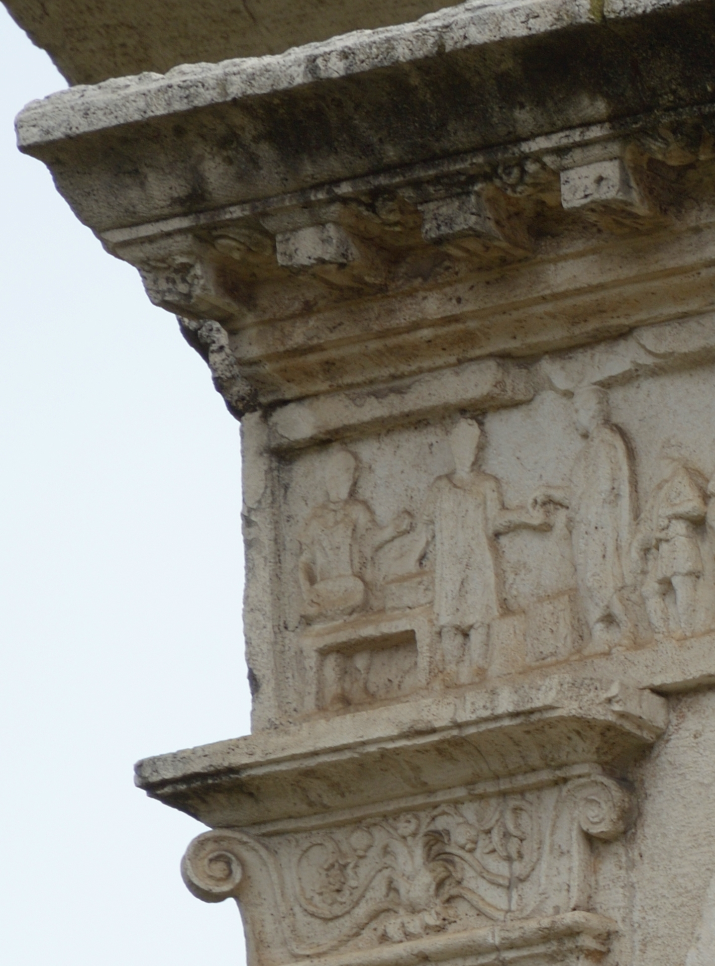 Tomb of Eurysaces the Baker